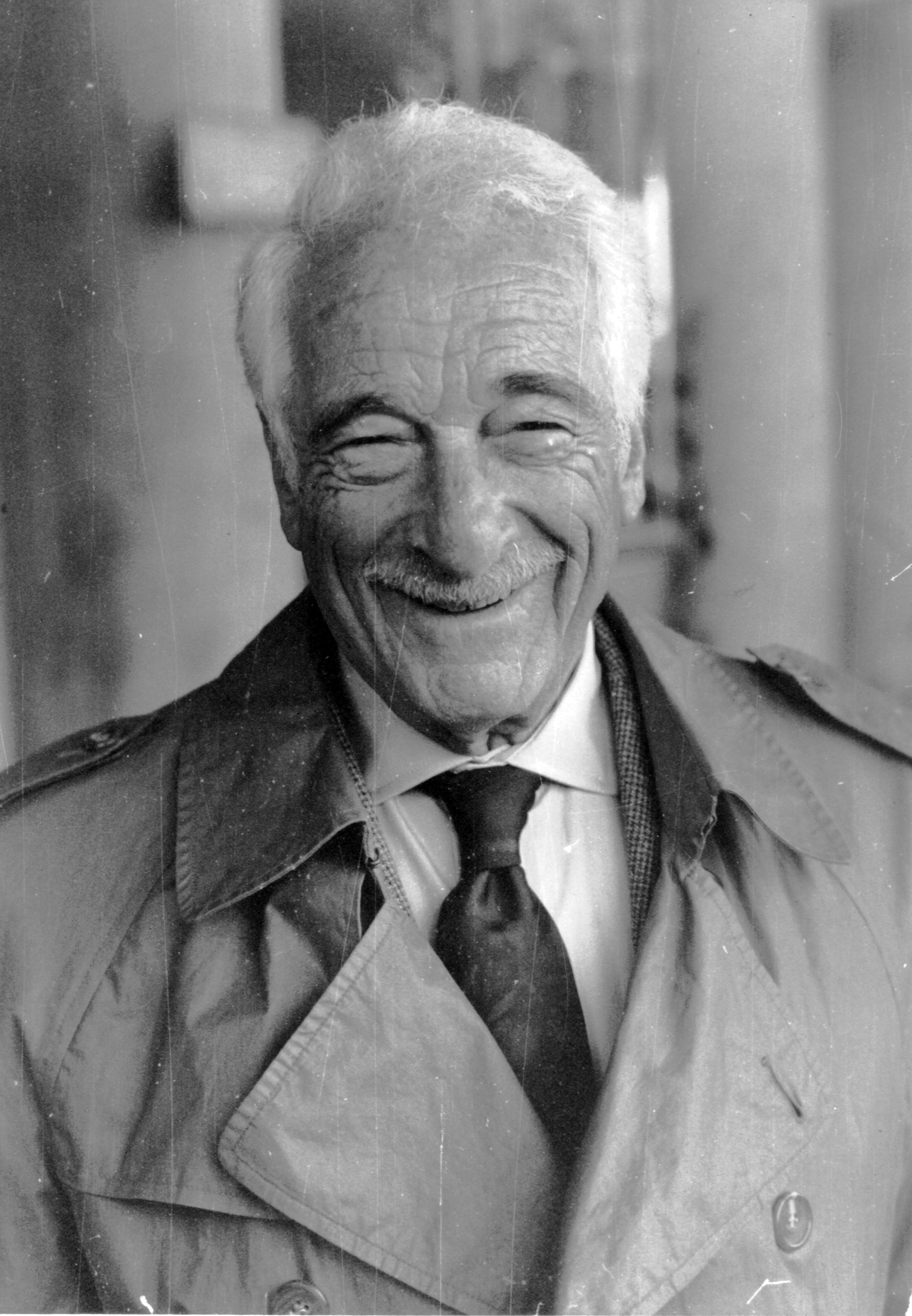 Danish American comedian Victor Borge, photographed outside of Hotel D'Angleterre in Copenhagen, DK, on a grey cloudy day in 1990